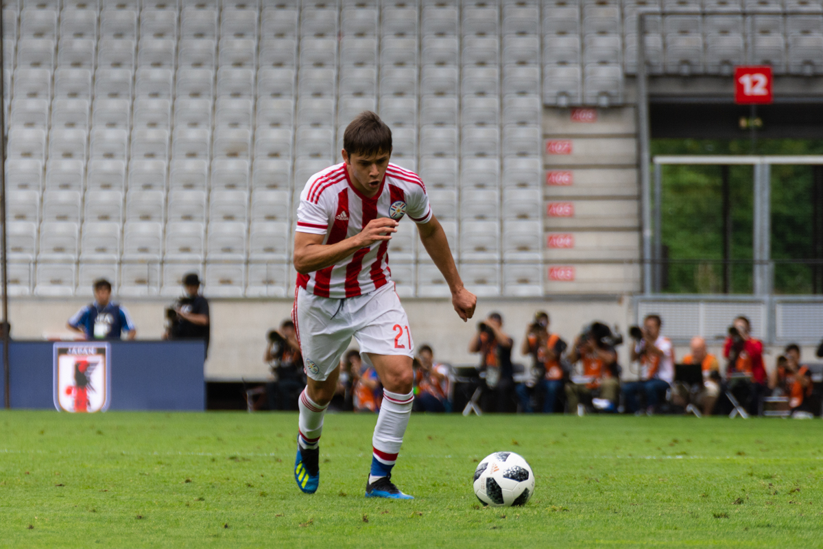 Óscar Romero (footballer)